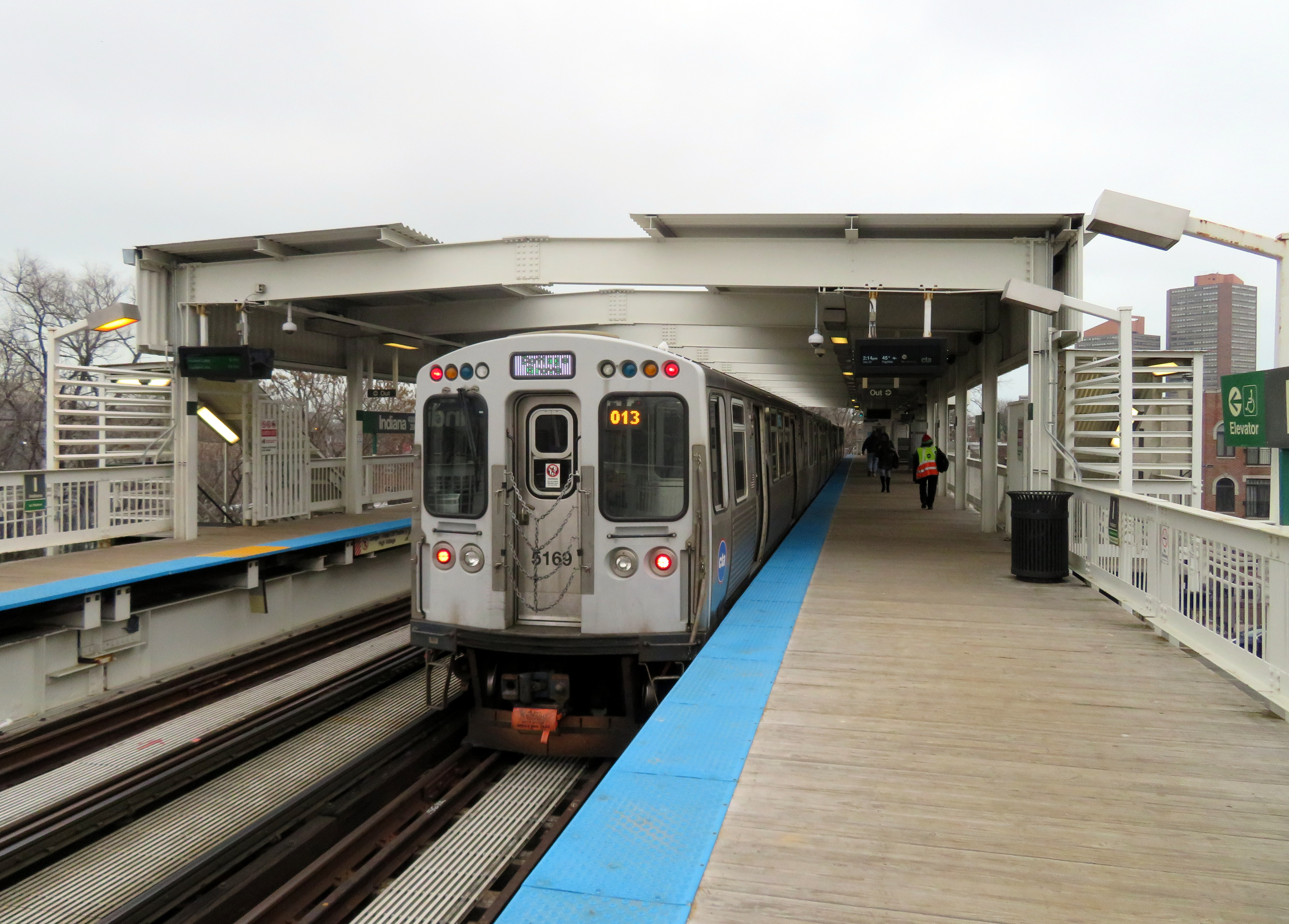 A southbound train at Indiana station in December 2018